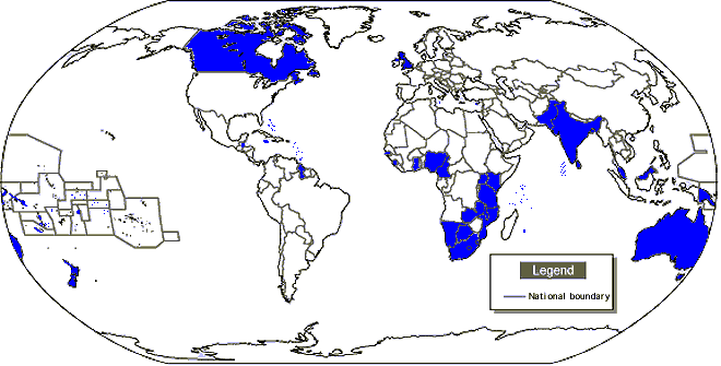 Map of the Commonwealth of Nations (formerly the British Commonwealth). Member states are colored blue. Created by User:ScottyBoy900Q from blank public domain map. Uploaded by: User:ScottyBoy900Q on 29 November 2004